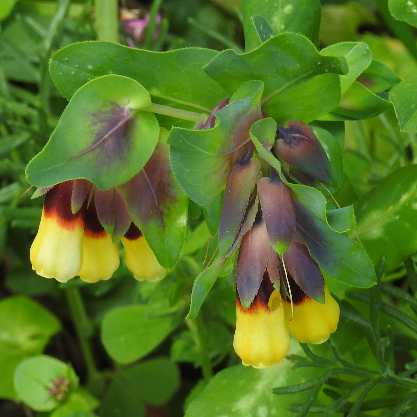 Cerinthe major, Zingaro, Sicily, Italy